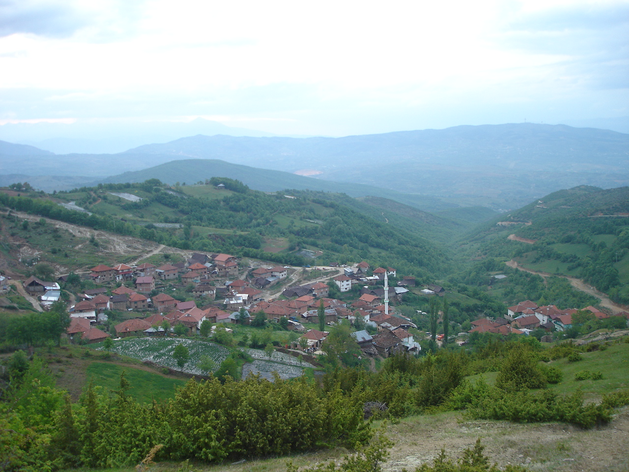 village of Cvetovo, near Skopje, Macedonia